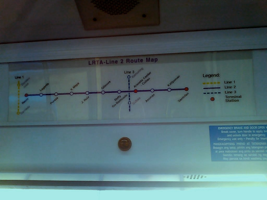 route map